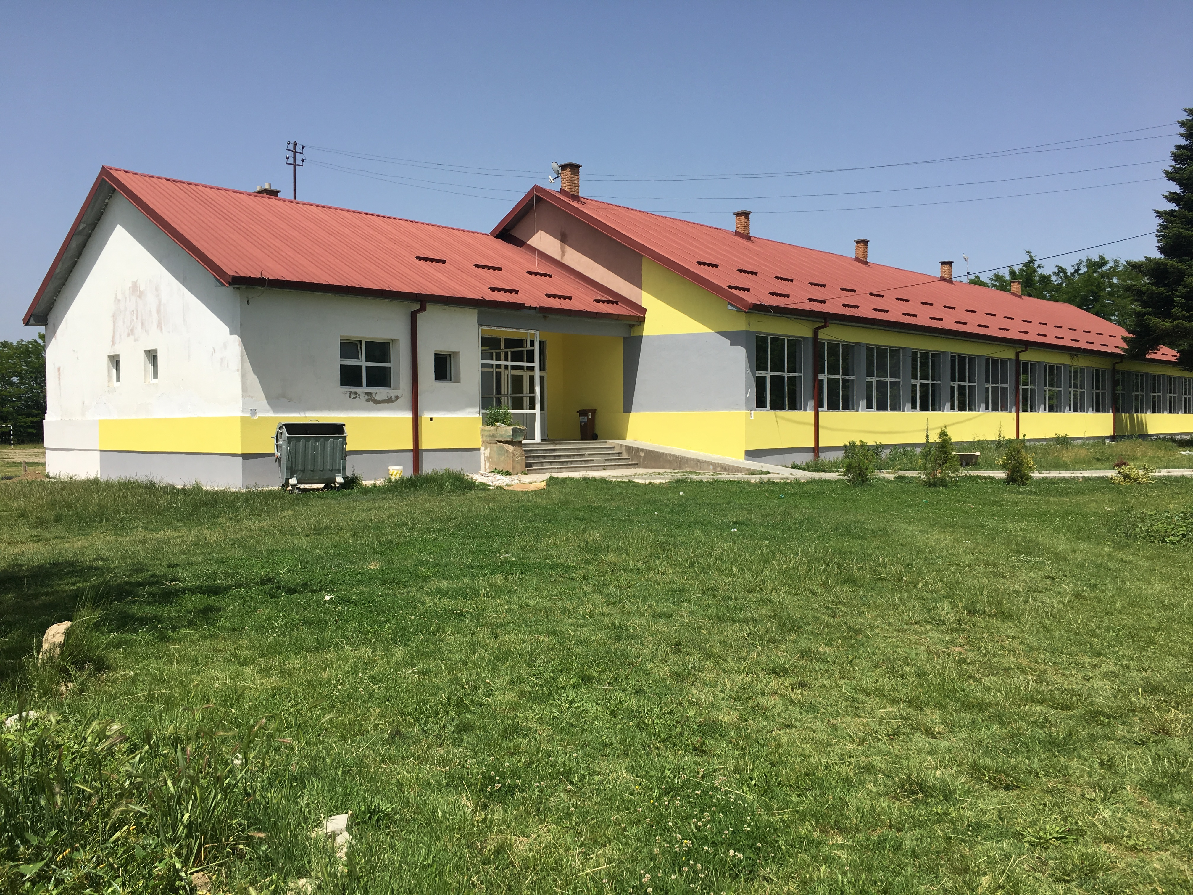 Miladinov Brothers Primary School in the village of Dobruševo